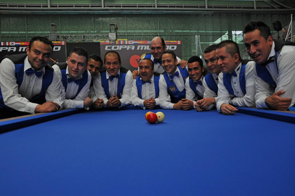 The Columbian team at the Final Round.